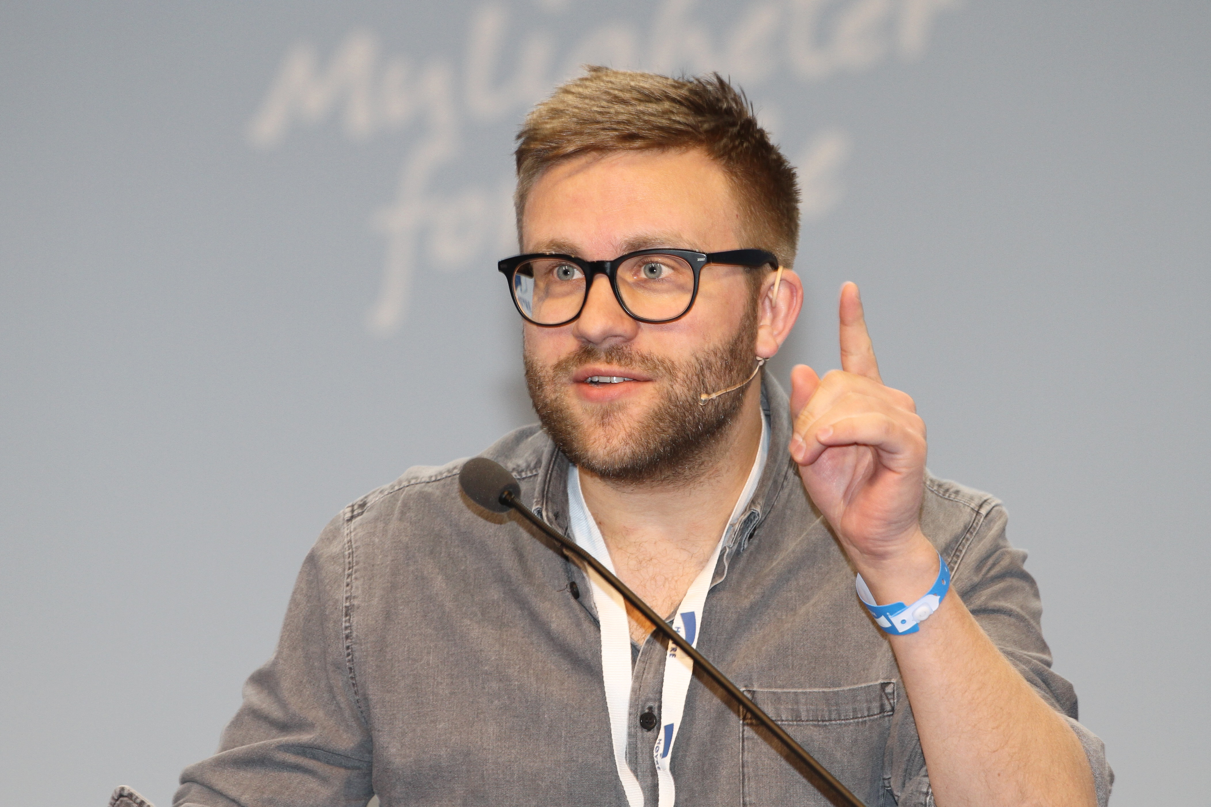 Stefan Heggelund